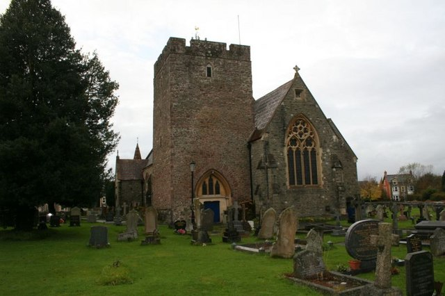 St Mary's church Builth Viewing St Mary's church from the east end.